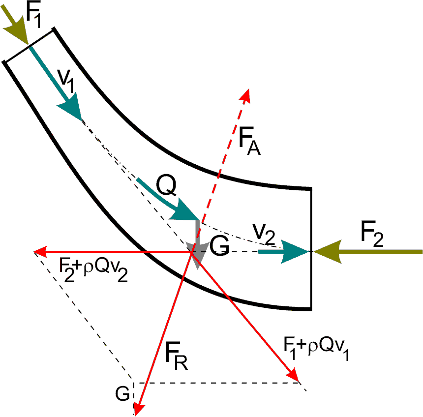 momentum of flow